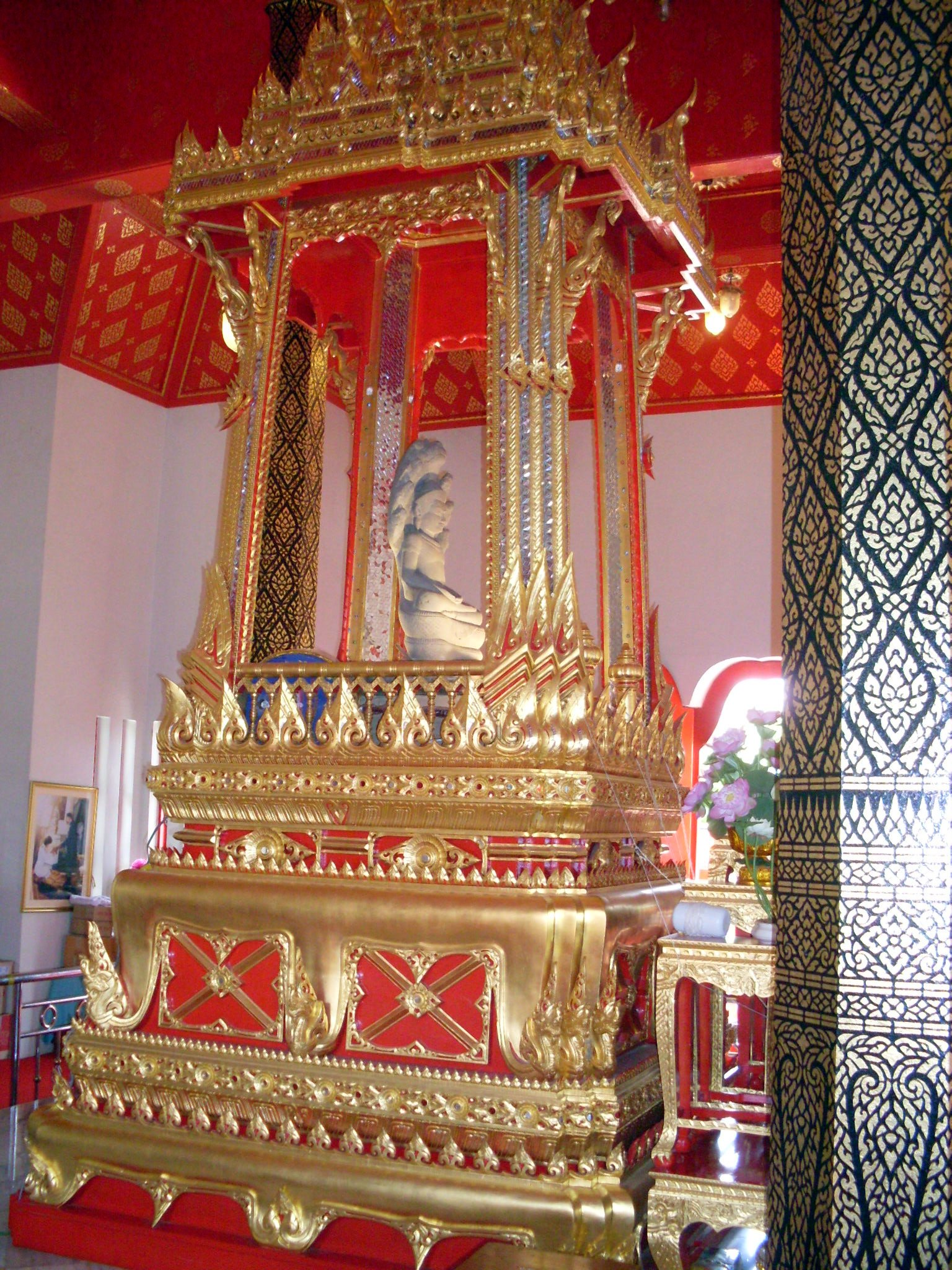 The famous Buddha "Luang Po Si La" of Wat Thung Saliam, Thung Saliam district, Sukhothai province, northern Thailand